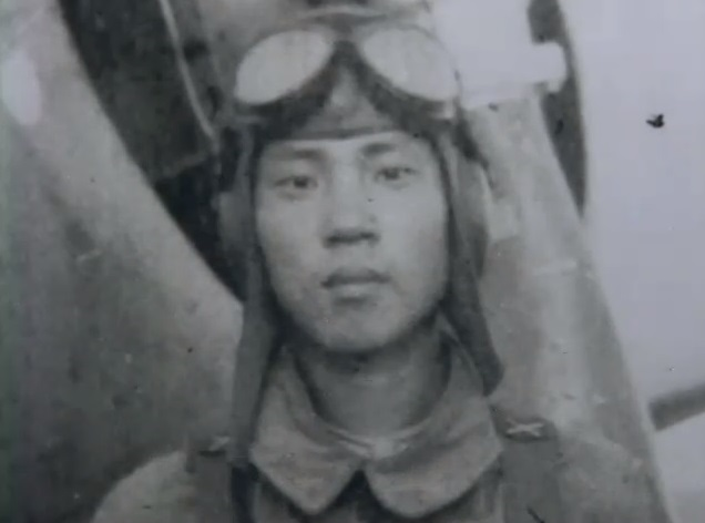 Masaaki Okawa